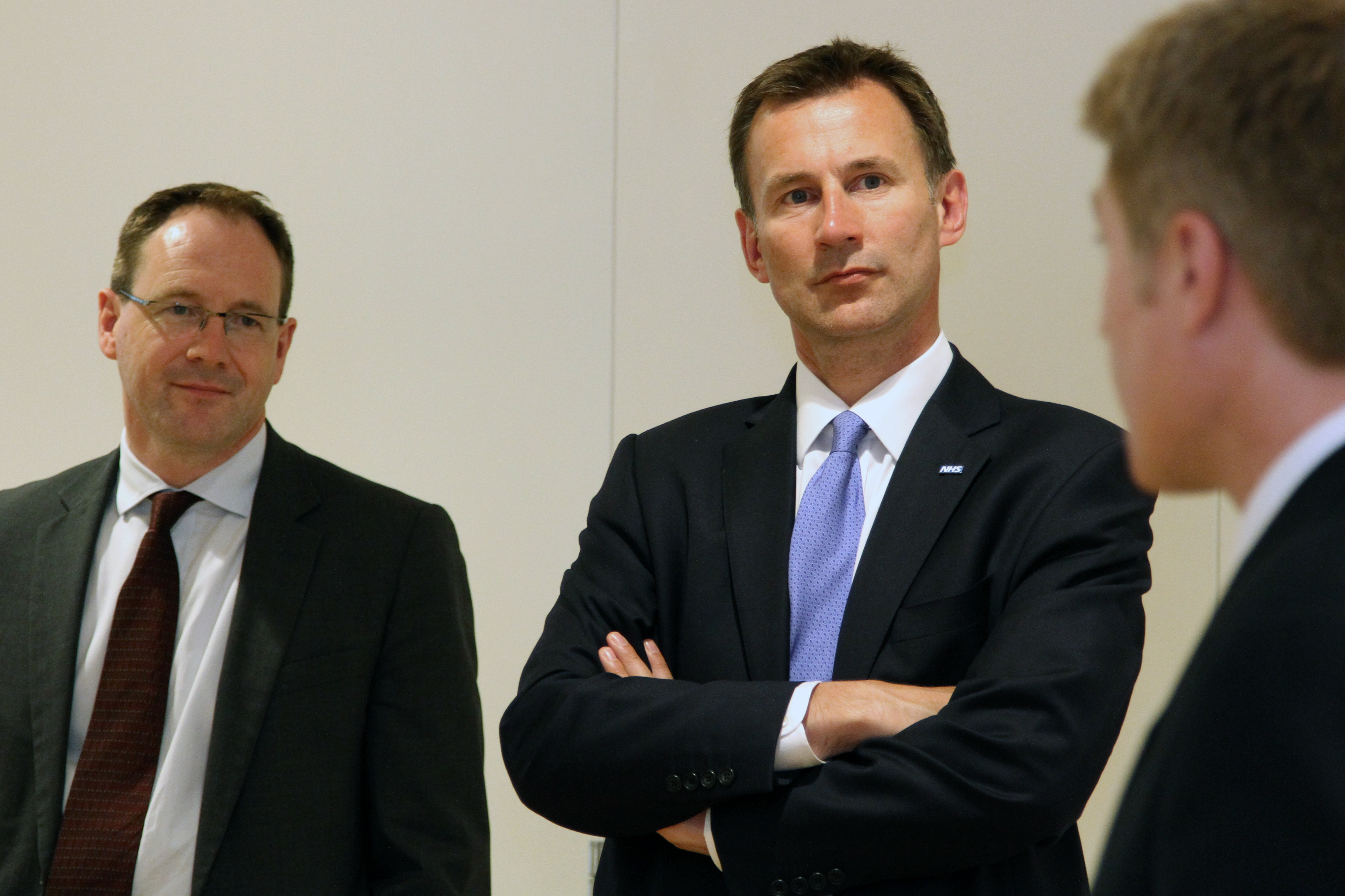 Jeremy Hunt, the UK Secretary of State for Health and Dr. Mark Davies, Director of Clinical and Public Assurance at the Health & Social Care Information Centre, visited the Kaiser Permanente Center for Total Health, Center for Total Health, 700 Second St, Washington, USA.